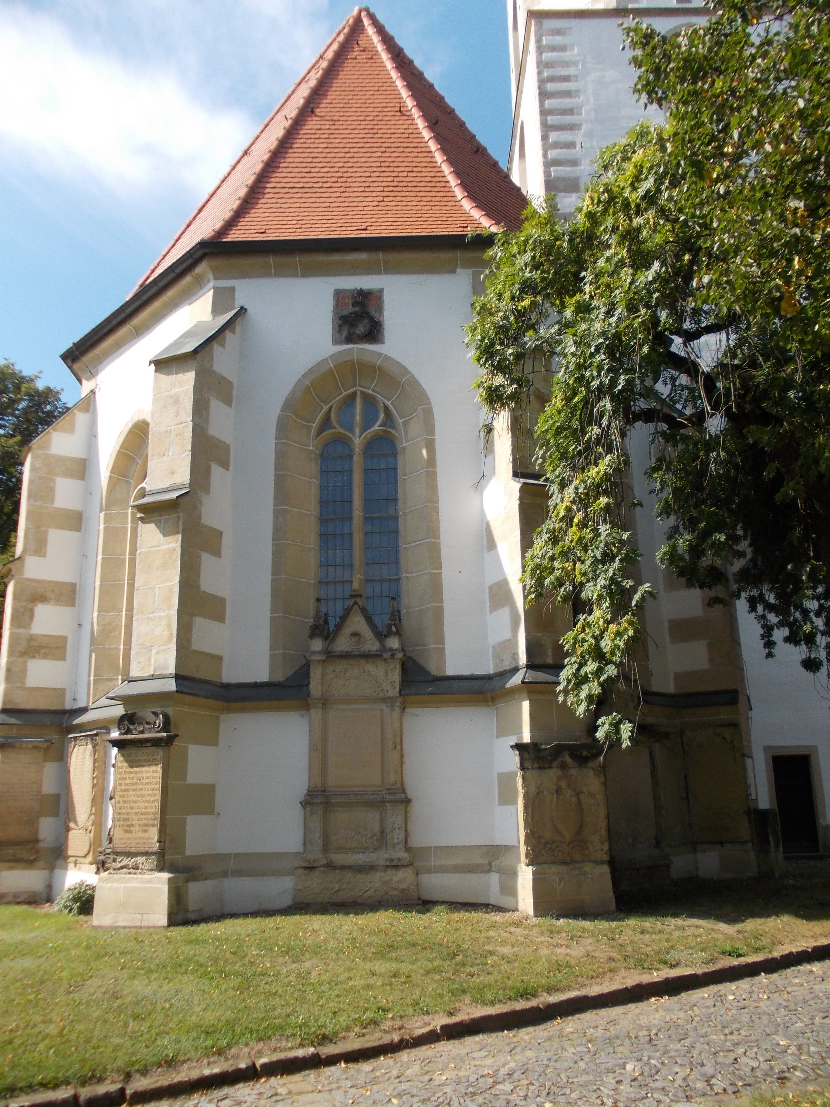 The church of the town of Strehla (Meissen district, Saxony)